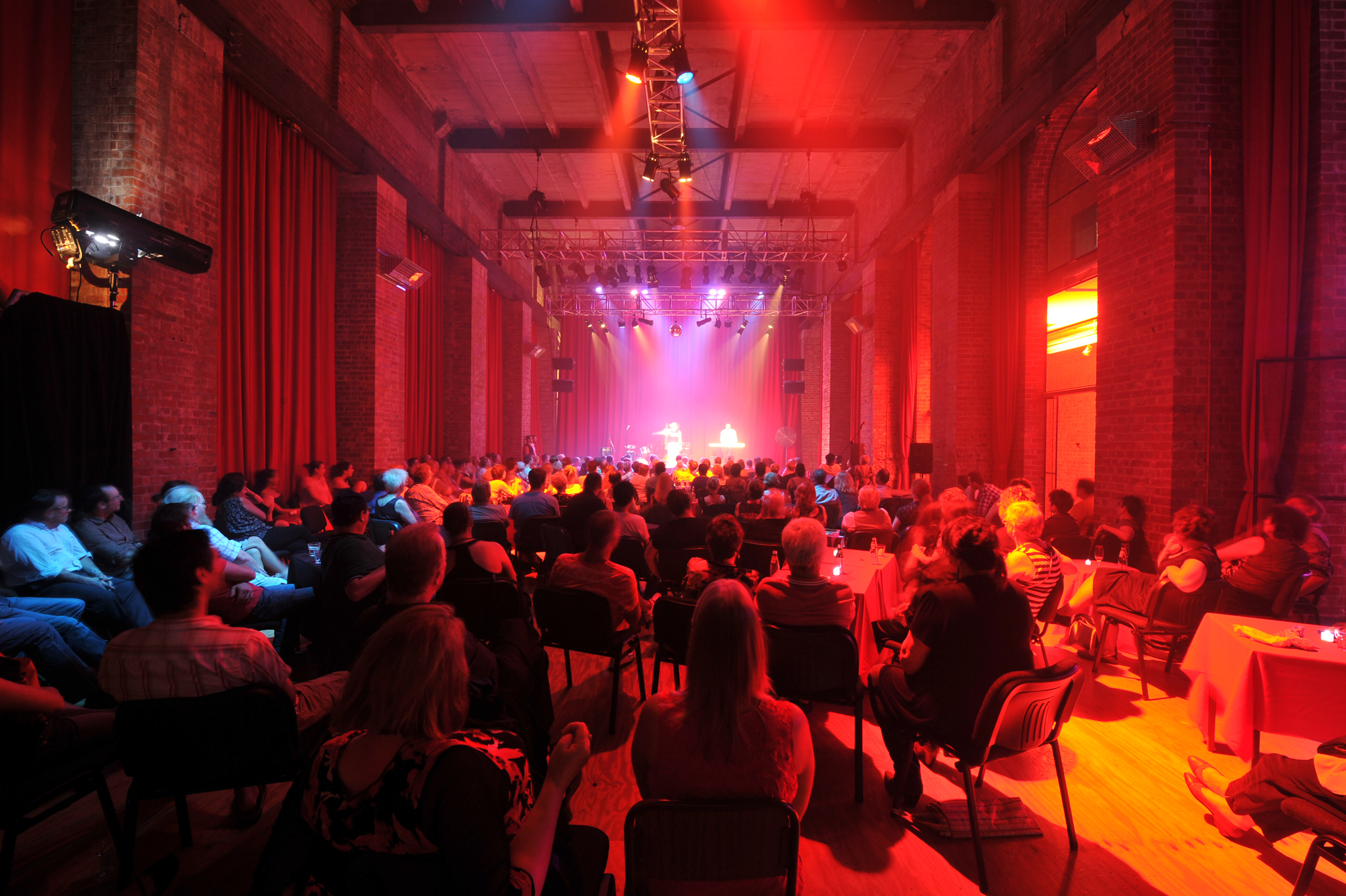 Cabaret evening at the Substation, Newport, Victoria